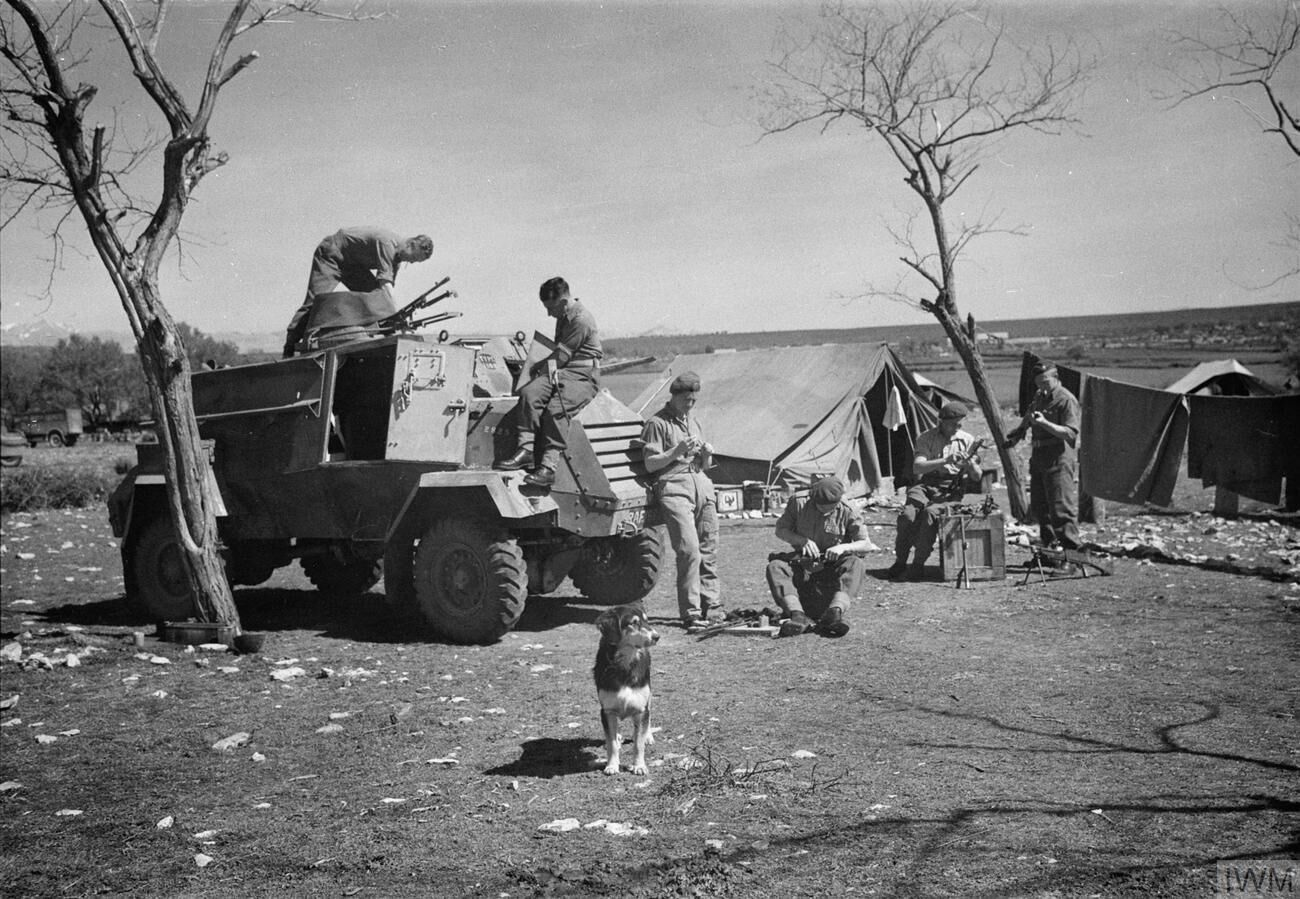 IWM caption : Men of the armoured detachment of No. 2771 Field Squadron, RAF Regiment, service their Otter light reconnaissance car and weapons at Prkos airfield, Yugoslavia.